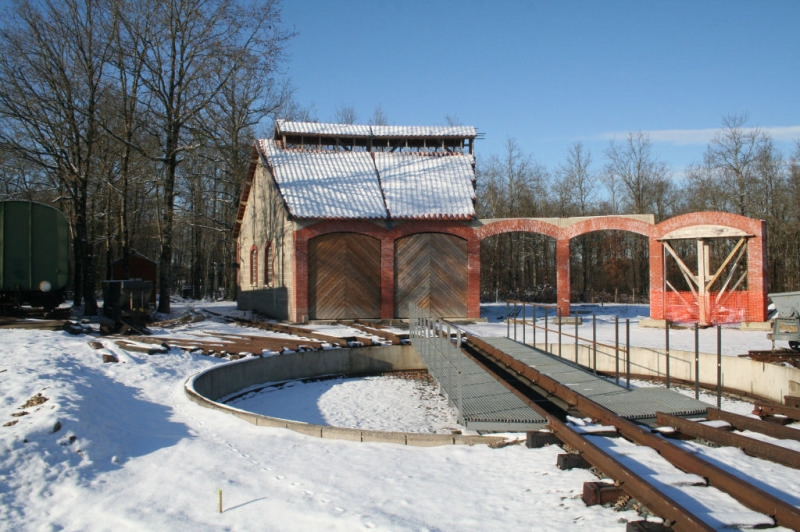 The rotunda, still in construction, under snow. It is on January 5th, 2009.